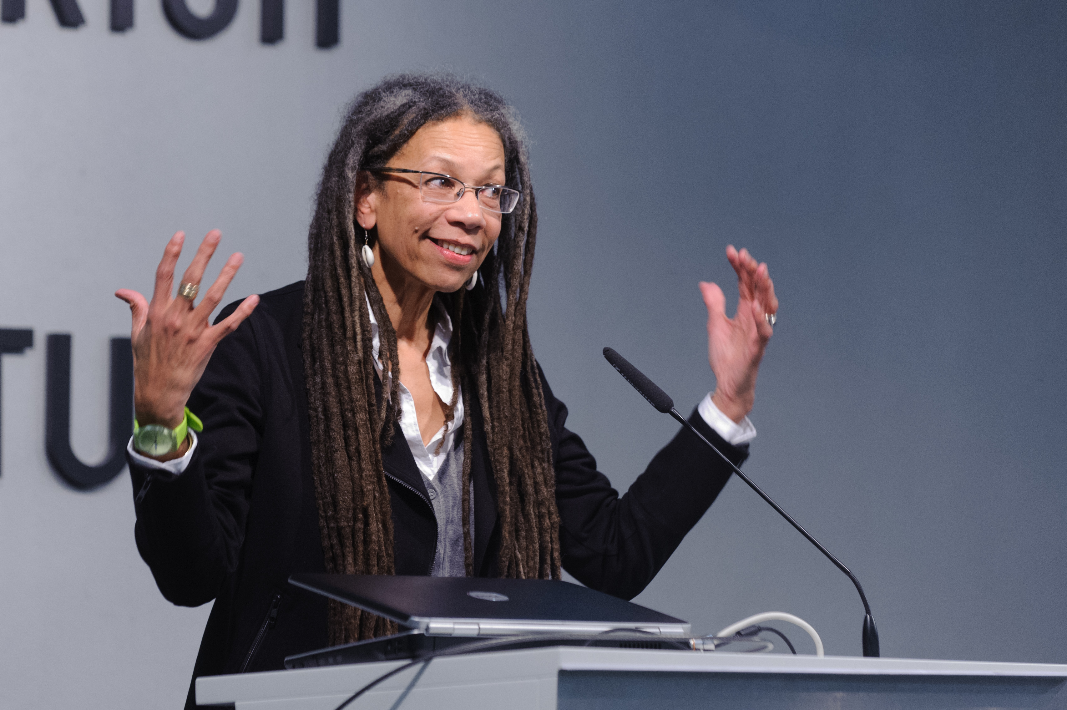 Ruth Wilson Gilmore speaking at the 'radius of art - Konferenz', hosted at the Heinrich Böll Foundation in Berlin, Germany.